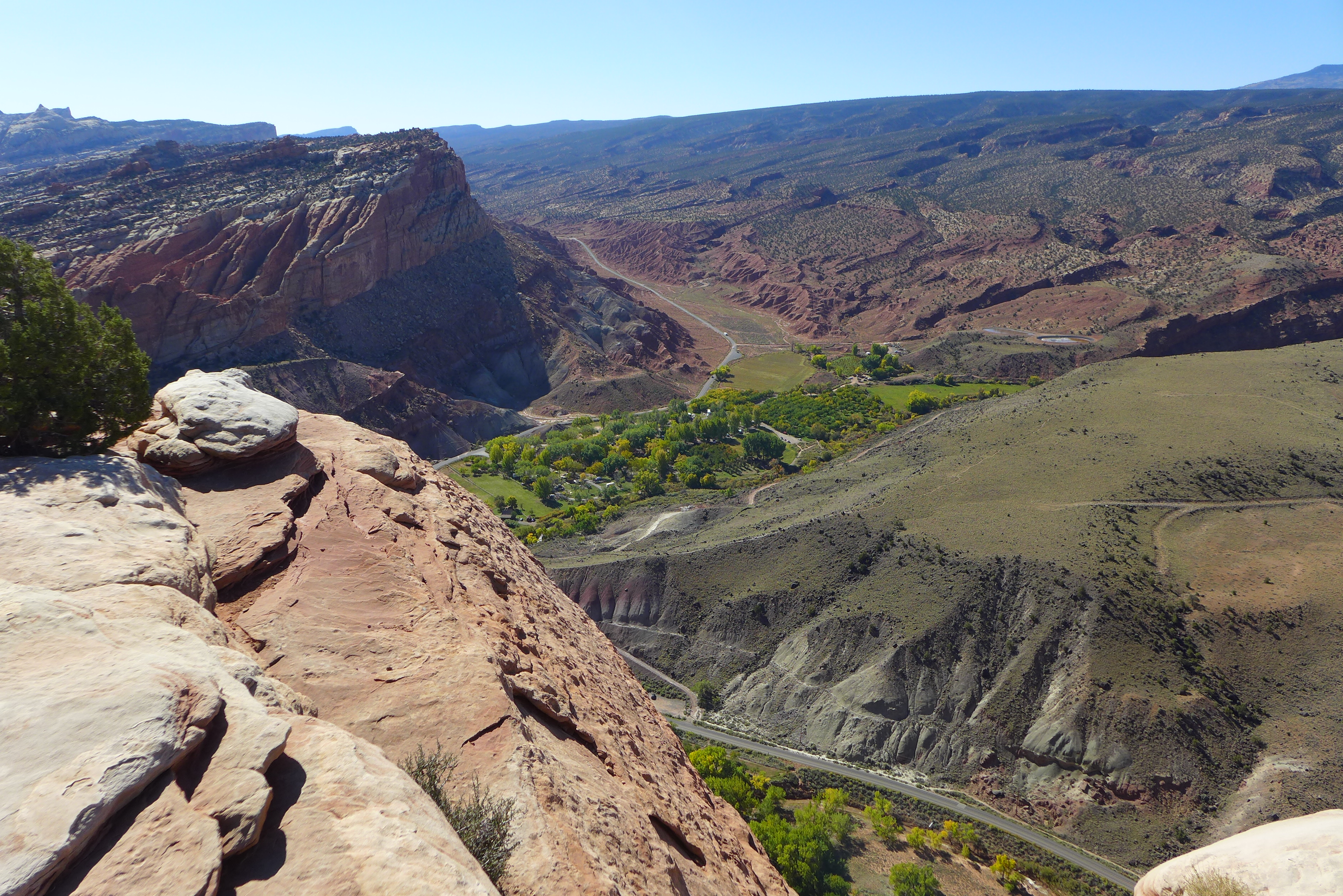 Fruita, Utah from rim of canyon